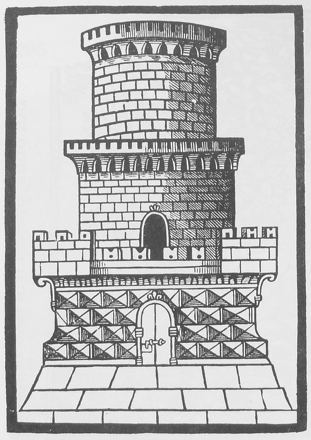 Tower; printer's signet used by the Soncino-family, 16th. c.